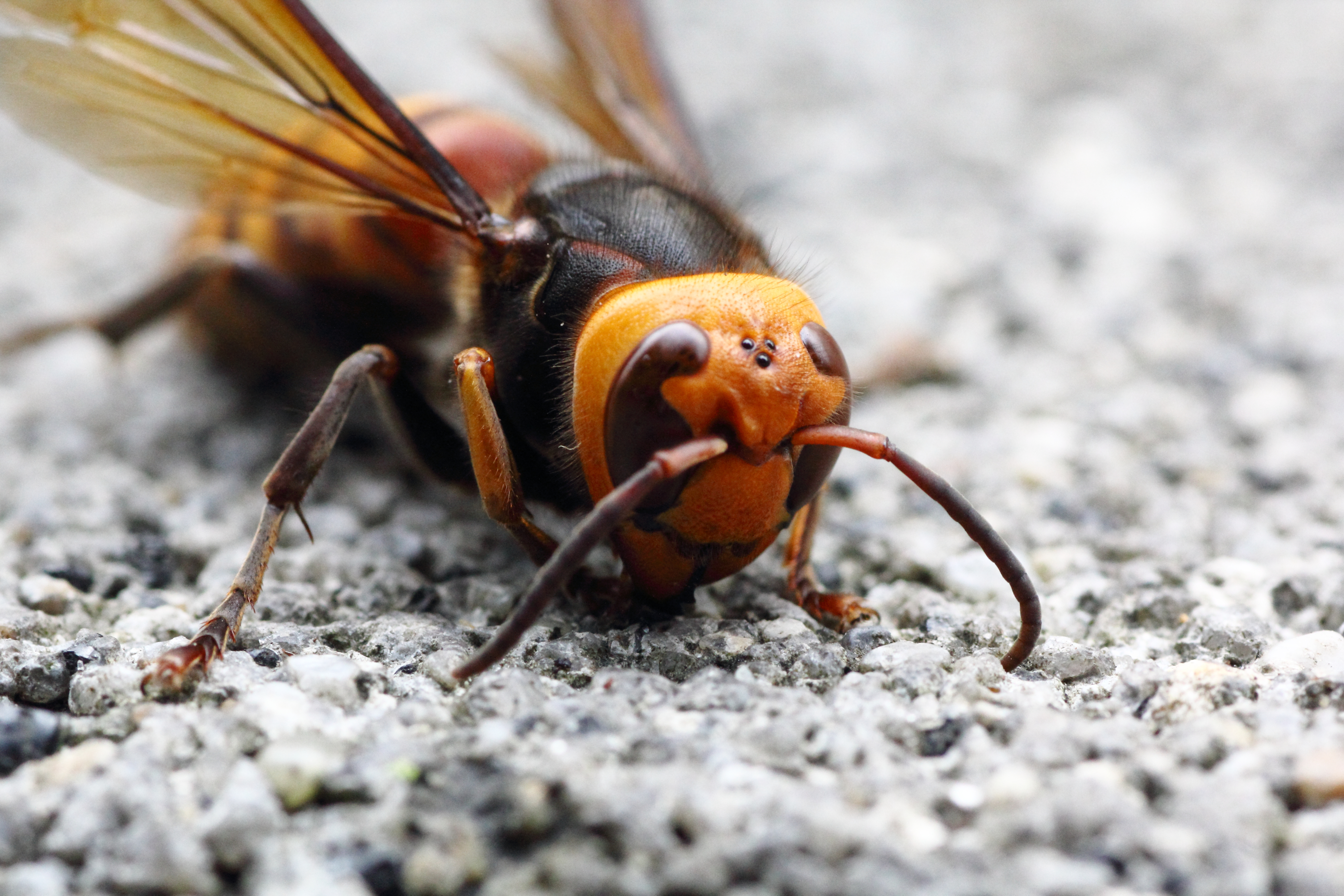 Dead body of Asian Giant Hornet (O-okayama, Tokyo, Japan)